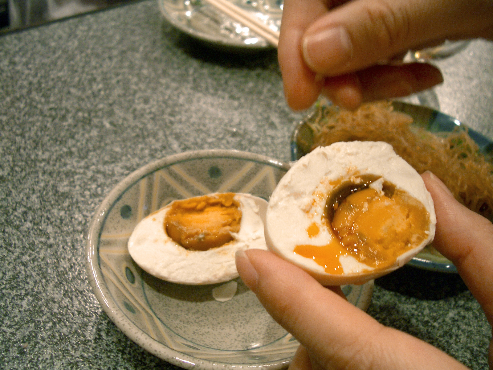 Salted duck egg